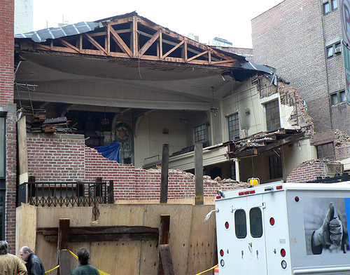 First Roumanian-American synagogue, Manhattan, New York - destroyed